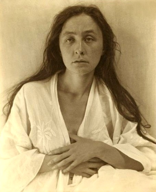 Photo portrait of Georgia O'Keeffe by Alfred Stieglitz, 1918.